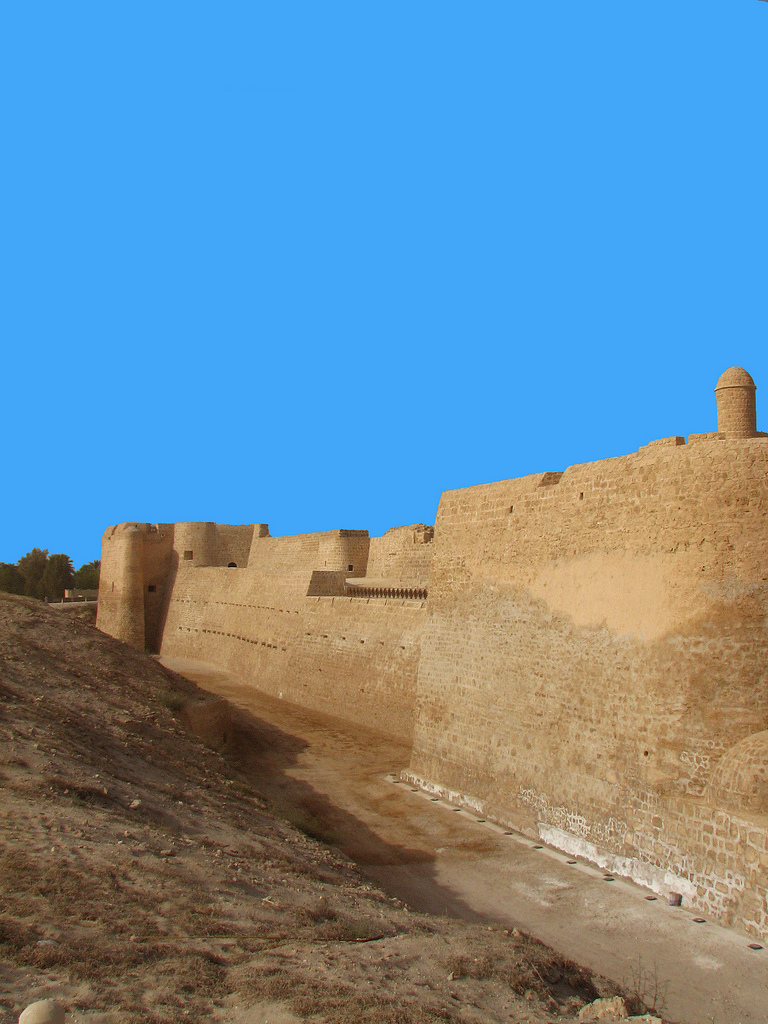 Qal`at al-Bahrain (english:) is an archaeological site located in Bahrain. It is composed of an artificial mound created by human inhabitants from 2300 BC up to the 1700's. Among other things, it was once the capital of the Dilmun civilization, and served more recently as a Portuguese fort. For these reasons, it was inscribed as a UNESCO World Heritage Site in 2005.